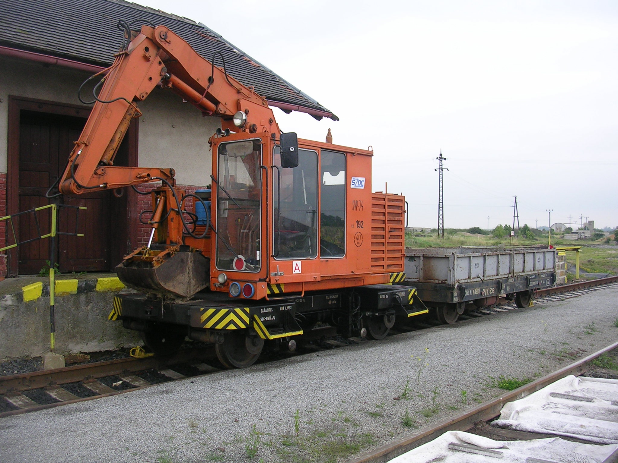 Straškov-Vodochody, Litoměřice District, Ústí nad Labem Region, the Czech Republic. A special vehicle at the train station "Straškov".